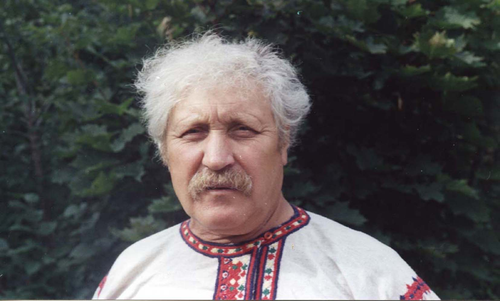 Anoshon Tumai (N.I. Anoshkin) is the founder of the Museum of Erzyan Culture.